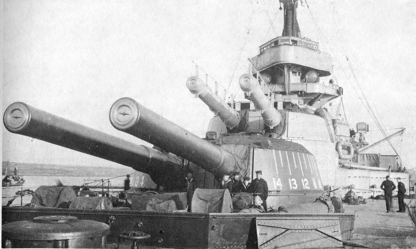 The forward main gun turrets of the British battleship HMS Ajax, each mounting two 13.5-inch (343 mm) Mark V naval guns.